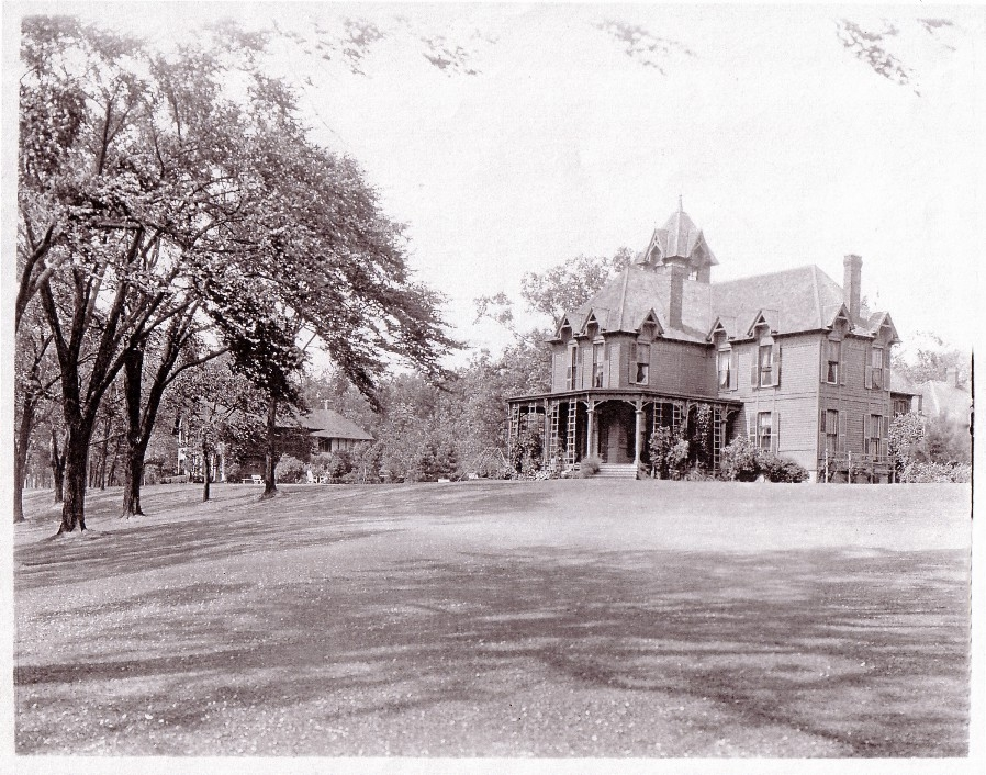 Elbridge Gerry Spaulding's Victorian era Stick Style home about 1870 - "River Lawn," - a half mile of river front